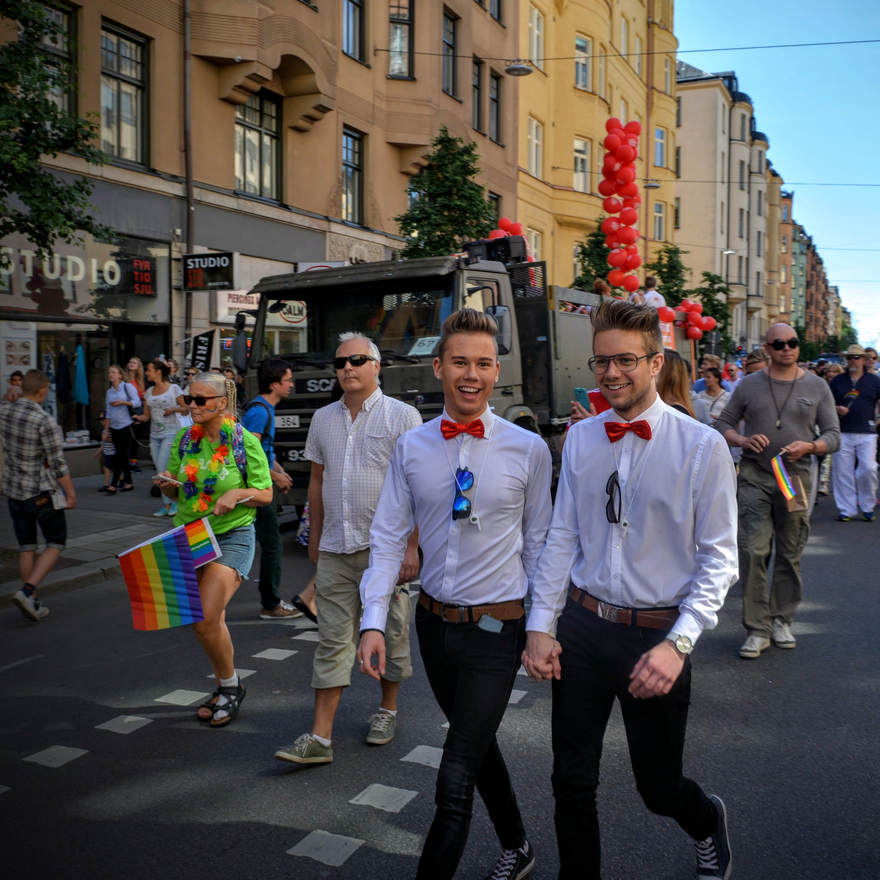 Stockholm Pride 2015 Parade.